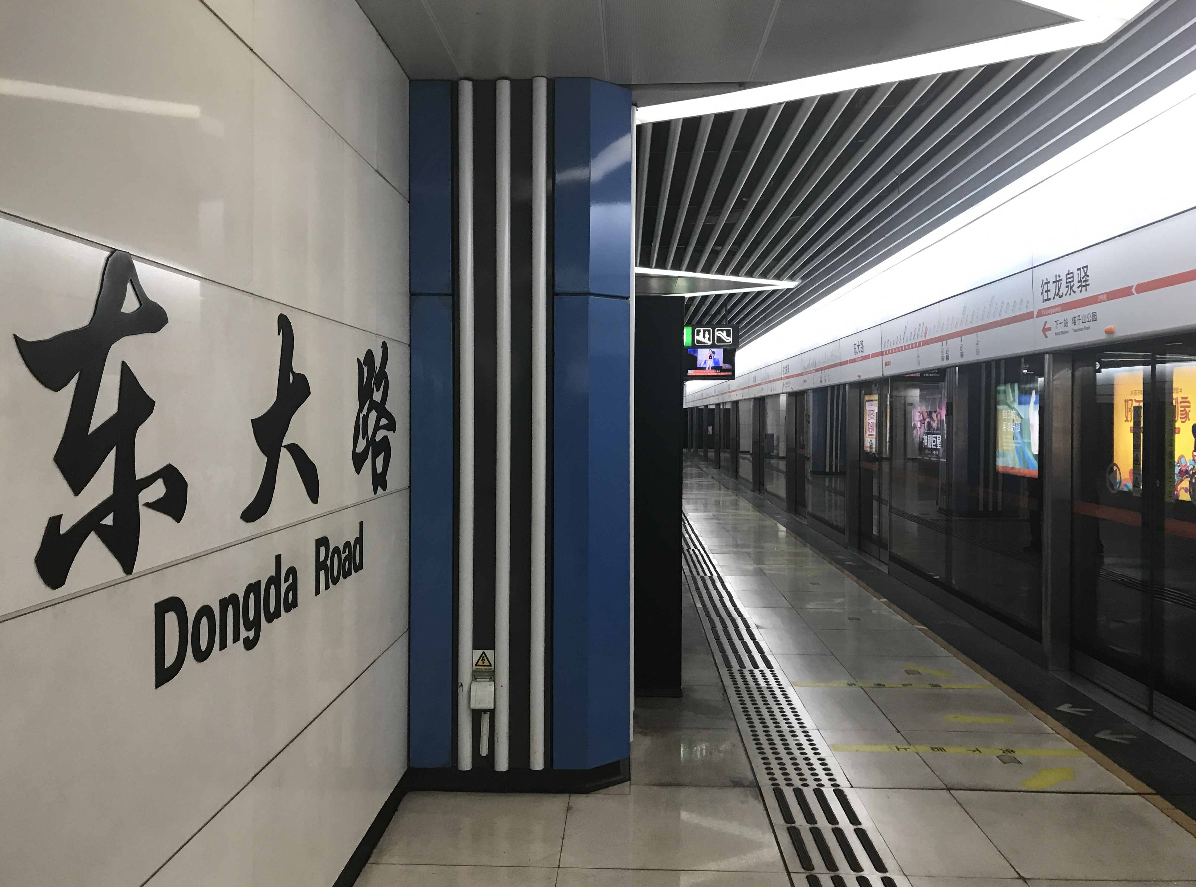 Platform of Line 2 in Dongda Road Station, Chengdu Metro